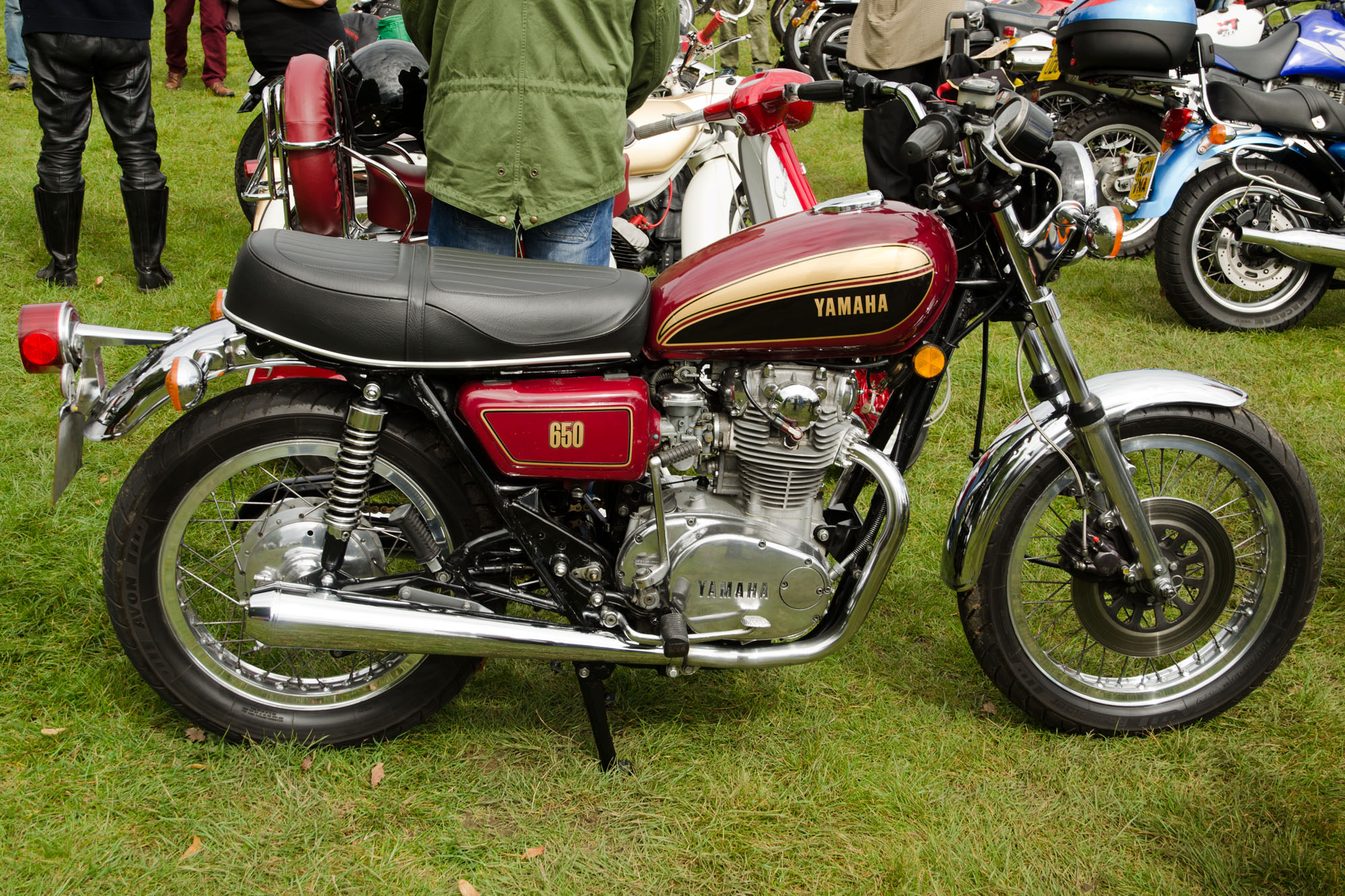 Cholmondeley Classic Car Show 31/08/2014